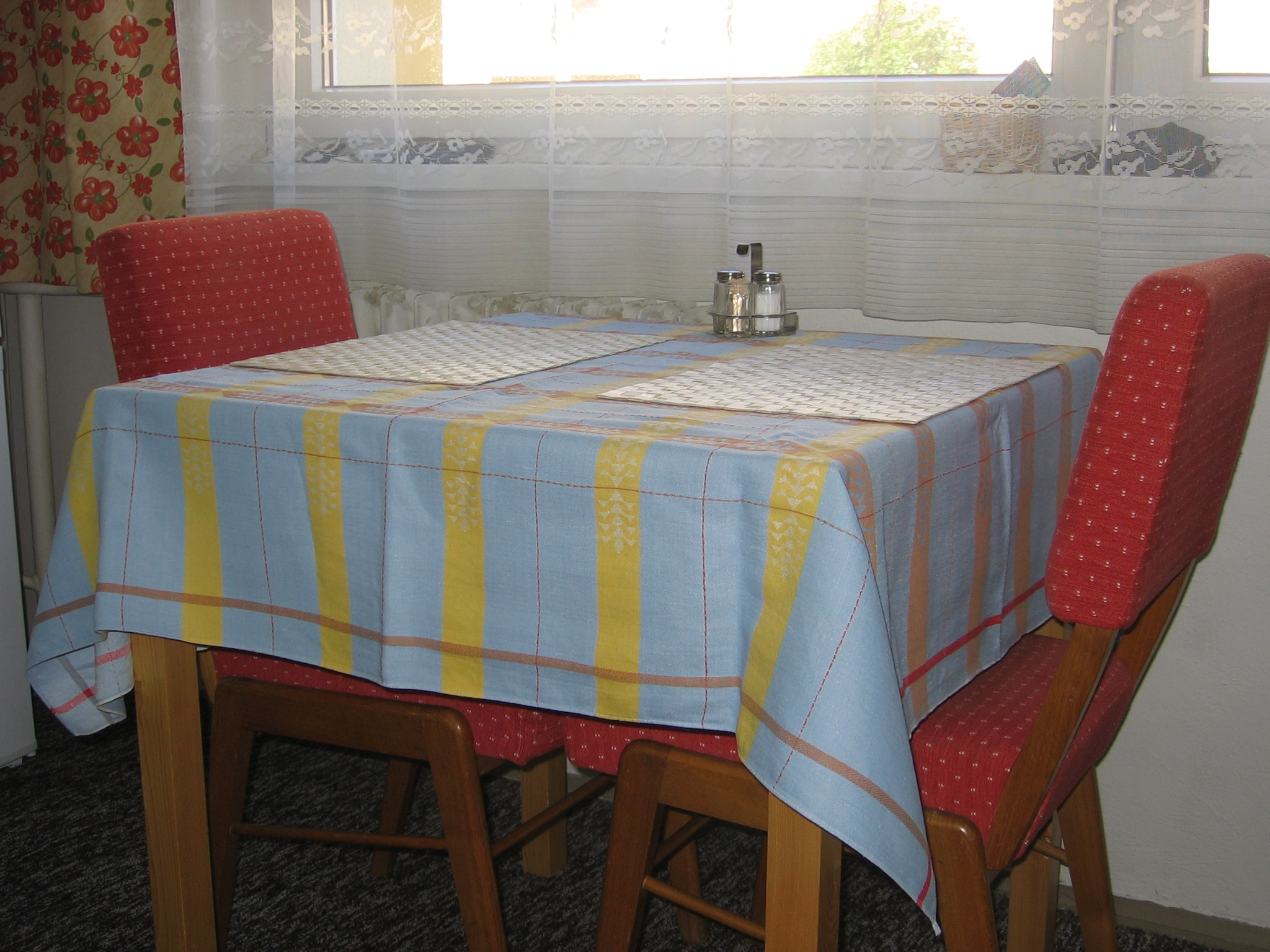 Tablecloth